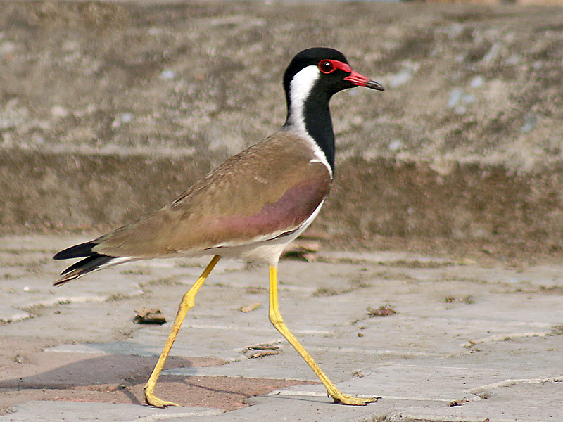 Red-wattled Lapwing Vanellus indicus in Bhopal, Madhya Pradesh, India.